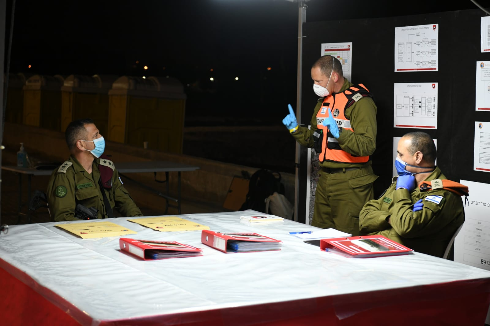 Depicted place: Bnei Brak